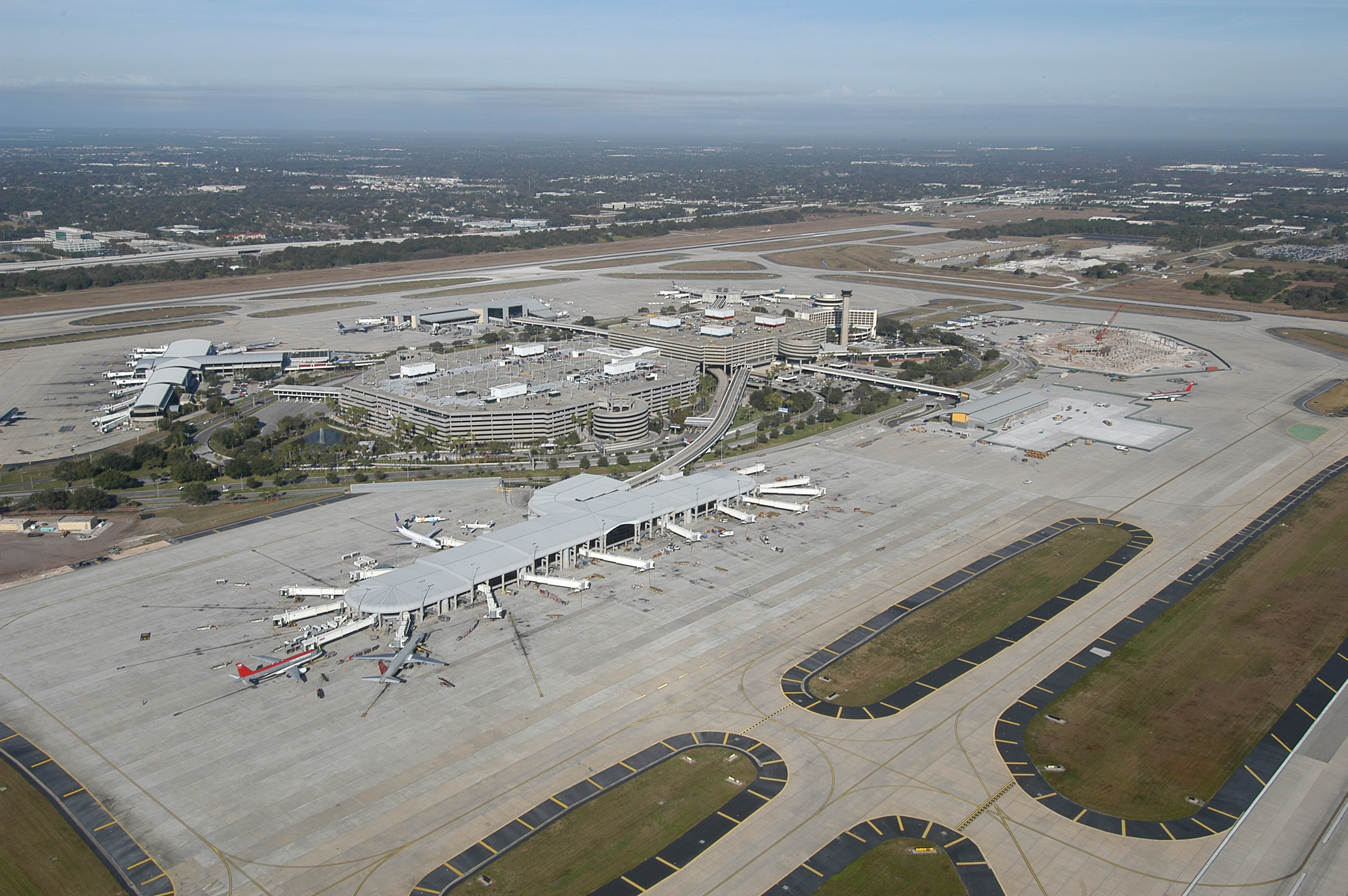 Aerial of Airside A.